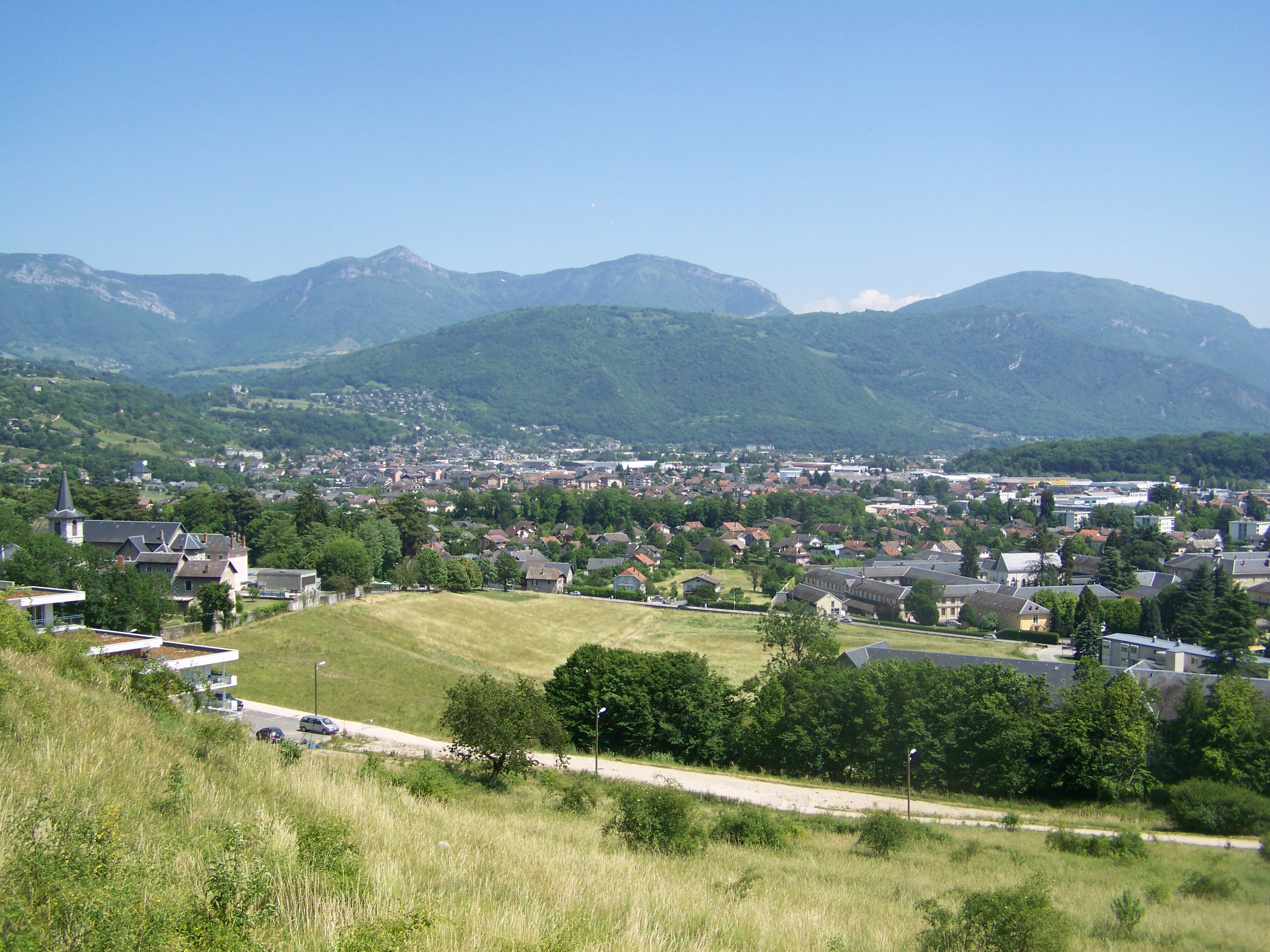 Sight on French commune of Bassens near Chambéry in Savoie.